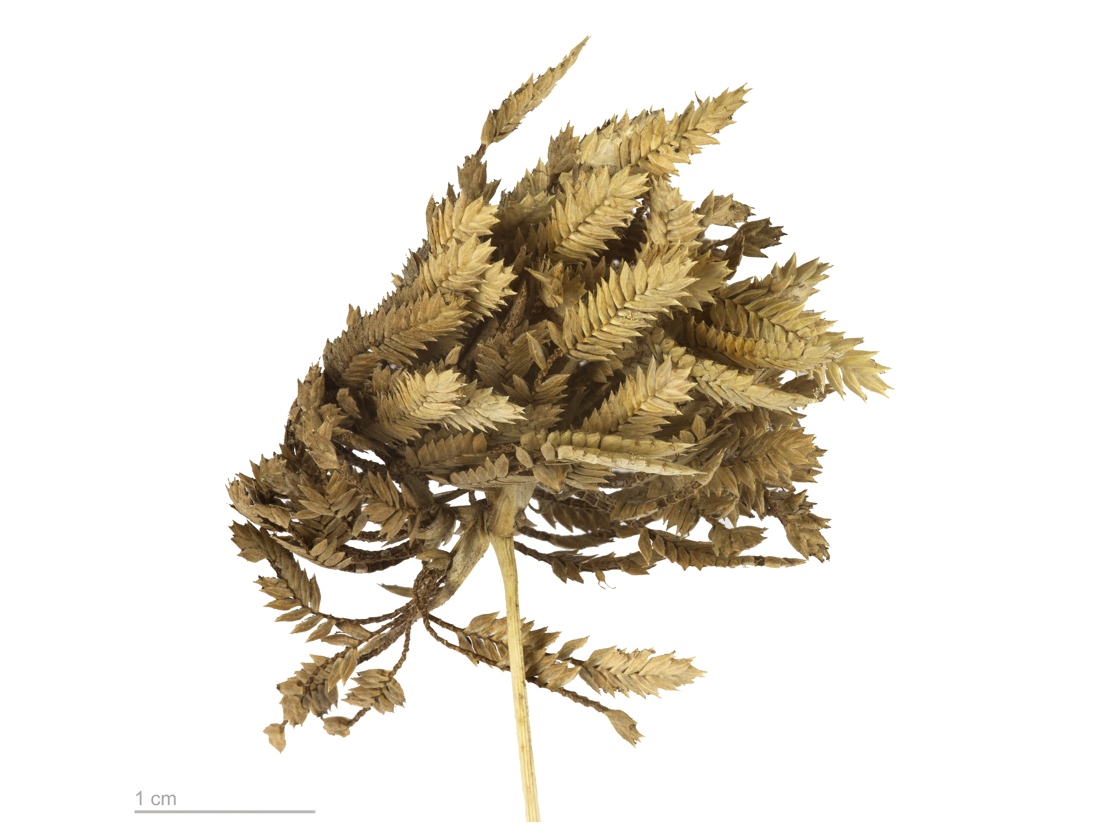 tall flatsedge , fruits and seeds